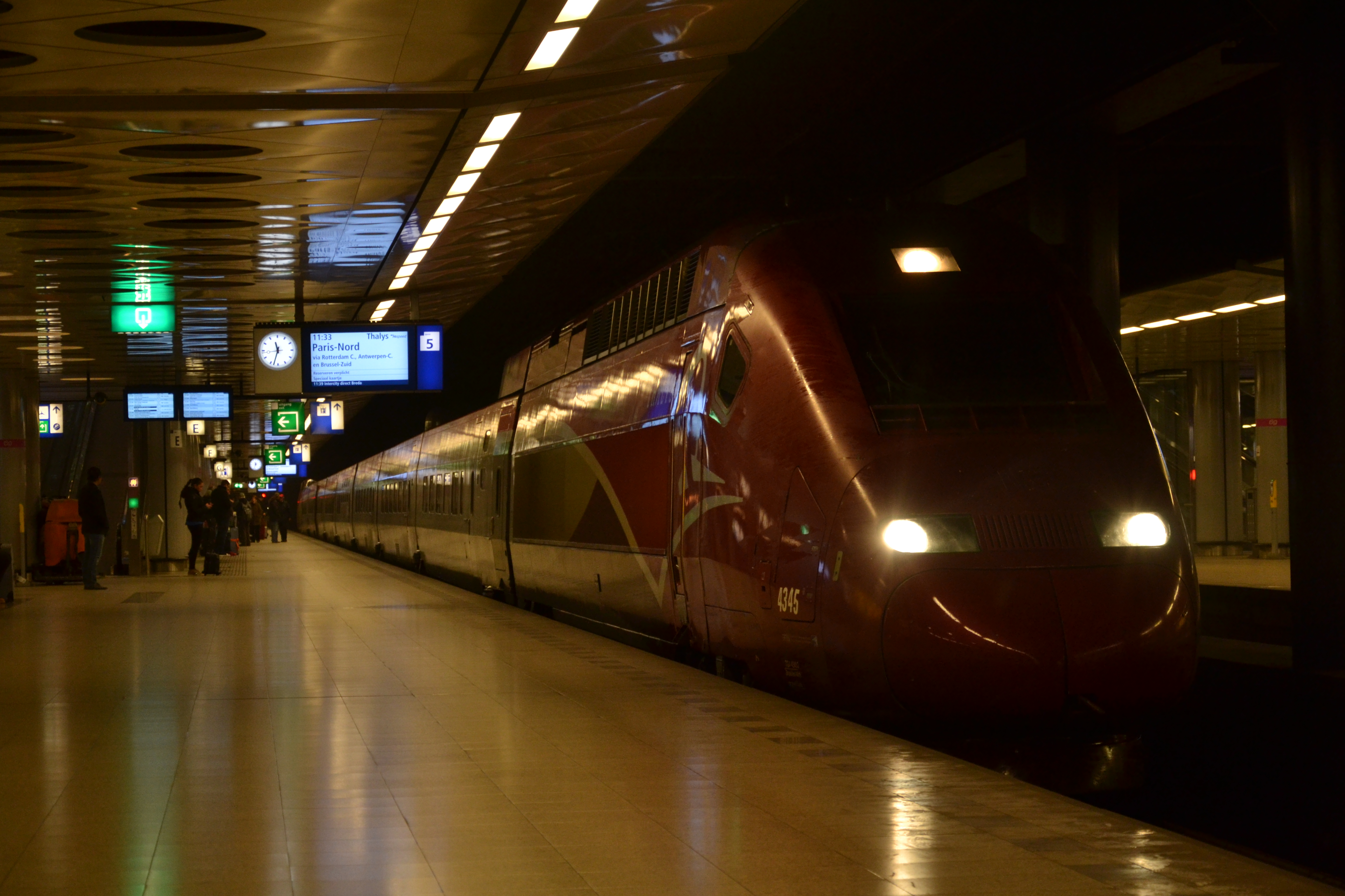 Thalys PBKA-treinstel 4345, als Thalys-rit 9340 naar Parijs, op station Schiphol. La rame Thalys PBKA no. 4345, comme Thalys 9340 à destination de Paris-Nord, à la gare de Schiphol Aéroport.